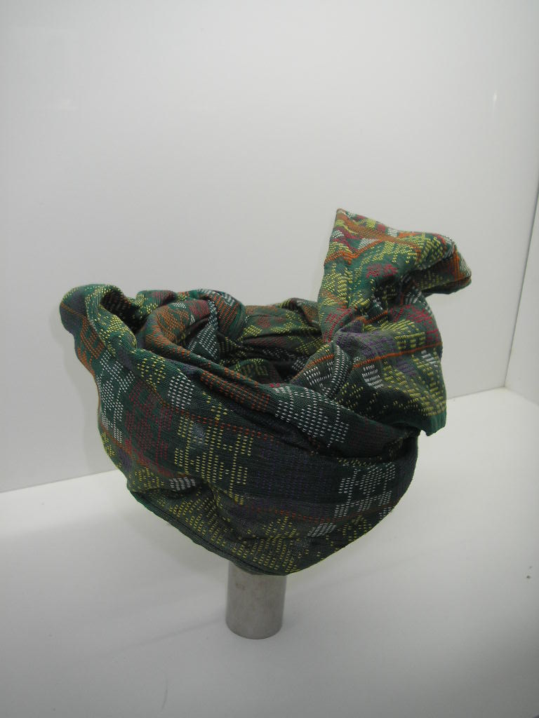 Bajau headgear. worn while riding a horse.